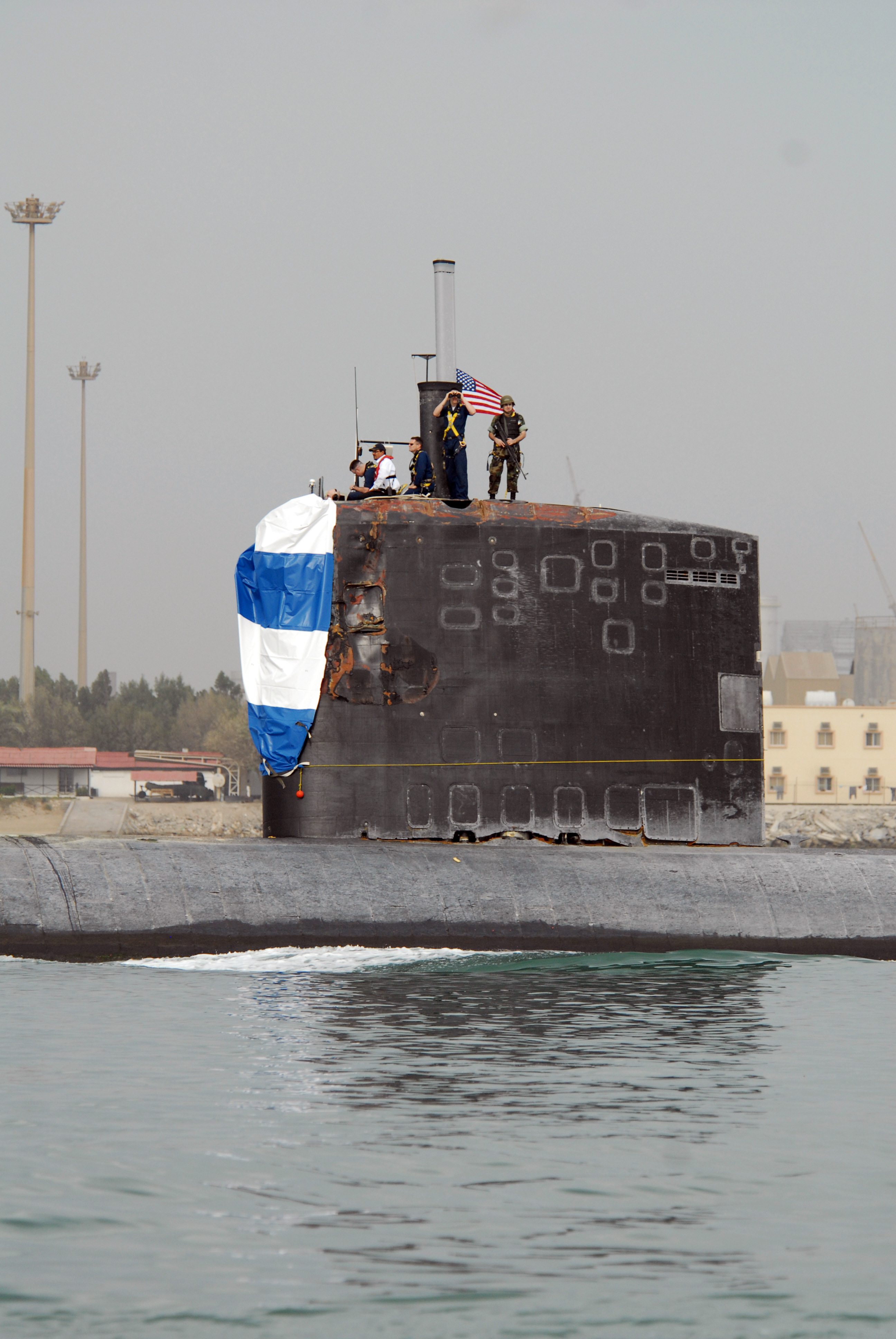 The Los Angeles-class attack submarine USS Hartford (SSN 768) pulls into Mina Salman pier in Bahrain where U.S. Navy engineers and inspection teams will assess and evaluate damage that resulted from a collision with the amphibious transport dock ship USS New Orleans (LPD 18) in the Strait of Hormuz March 20. Overall damage to both ships is being evaluated. The incident remains under investigation. Hartford is deployed to the U.S. 5th fleet area of responsibility to support maritime security operations.